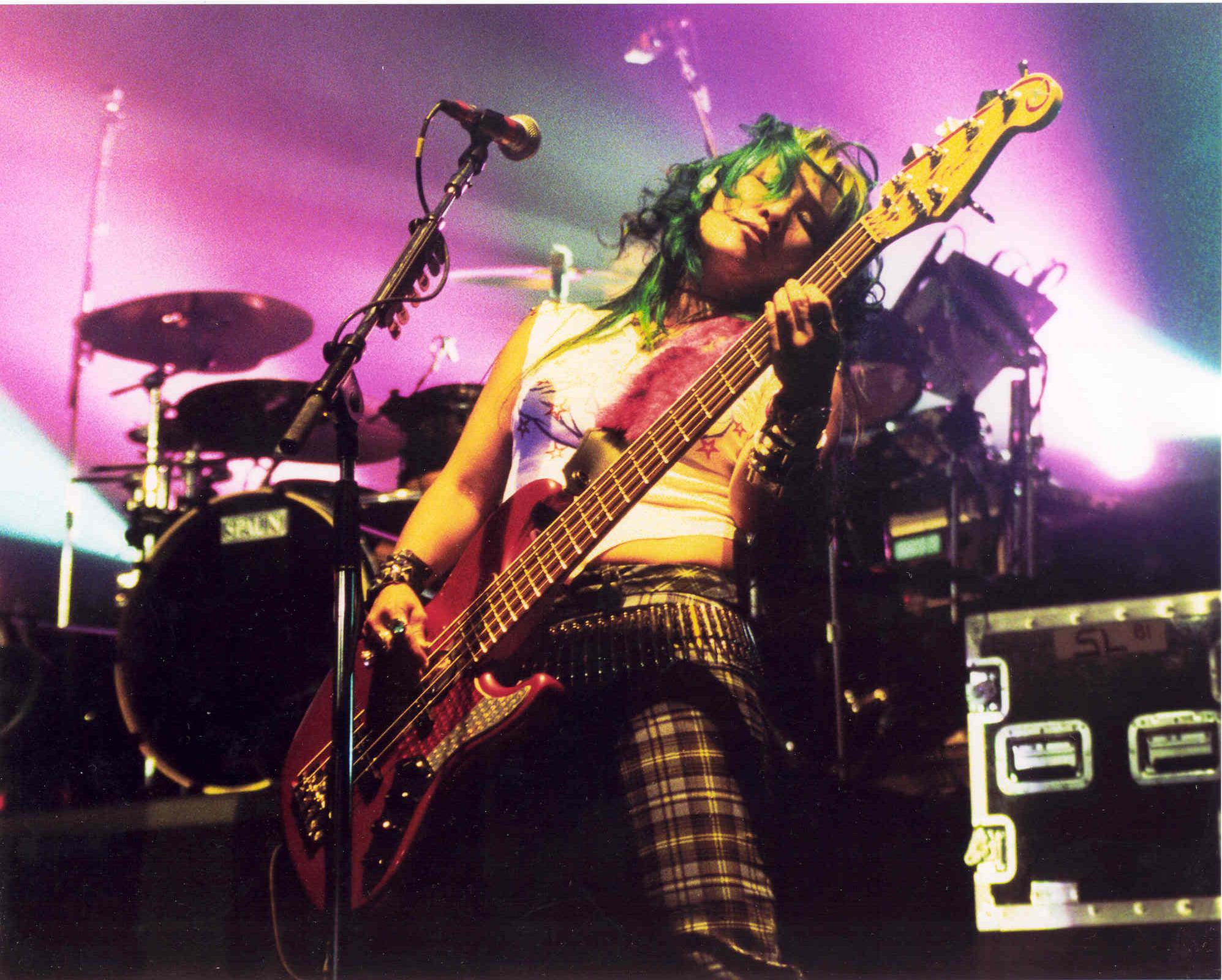 Janis Tanaka in concert